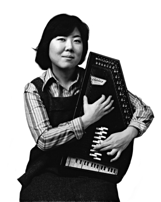 b/w photograph of an autoharp.